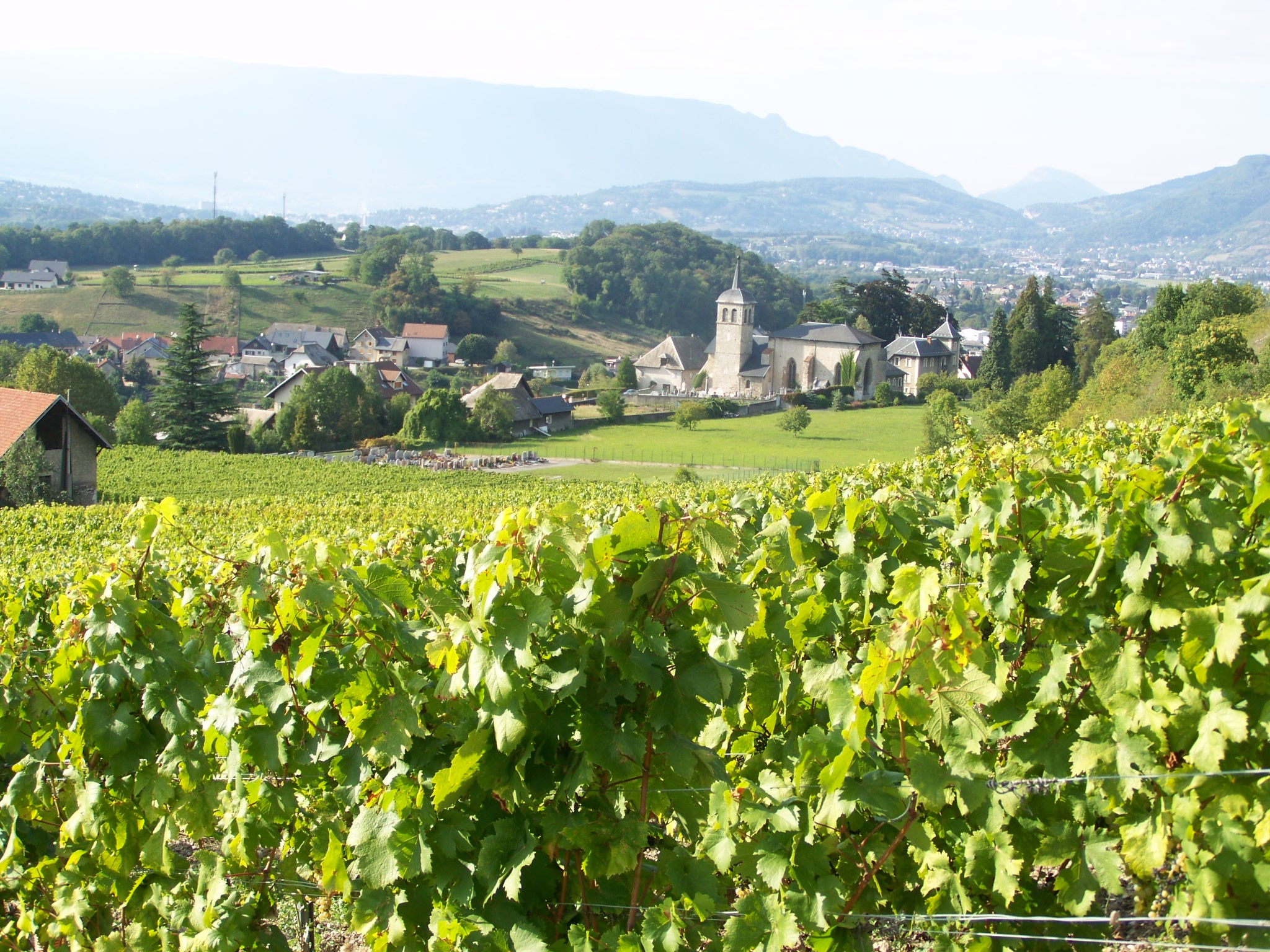 Vineyards in St-Jeoire-Prieuré, Savoie, France.